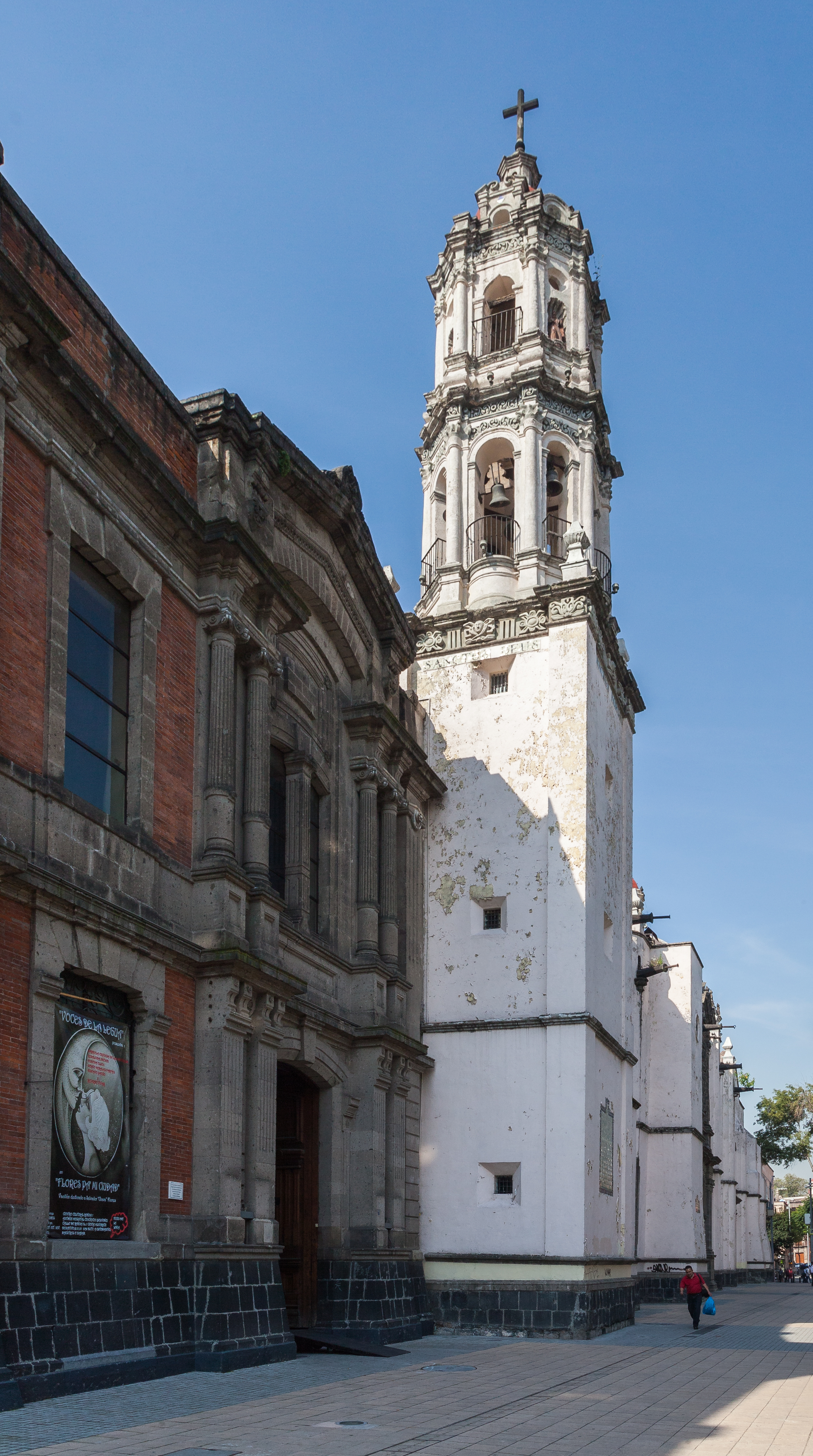 Temple and Church of Regina Coeli, Mexico City, Mexico